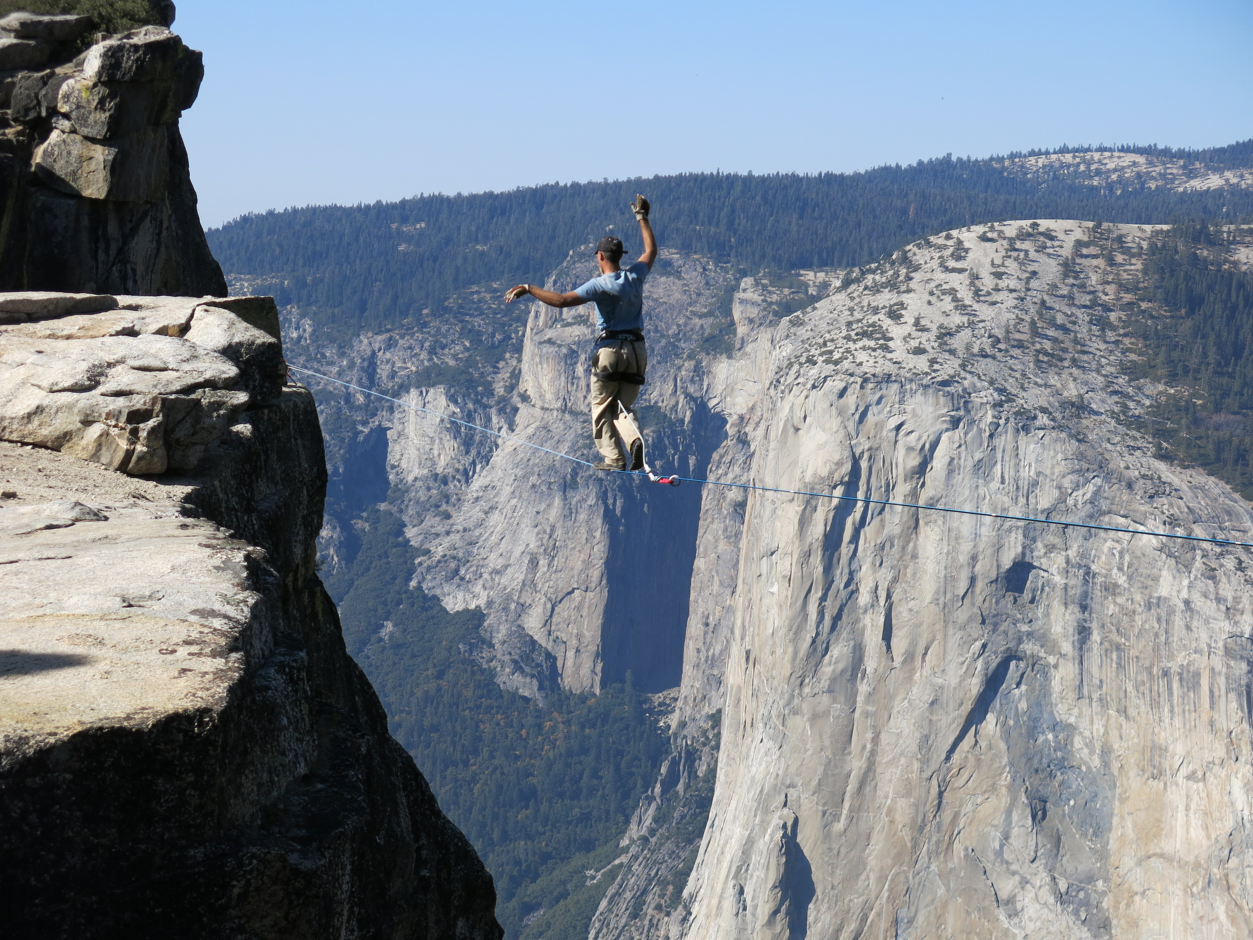 Man highlining at Taft Point, Yosemite National Park, with El Capitan in the background.